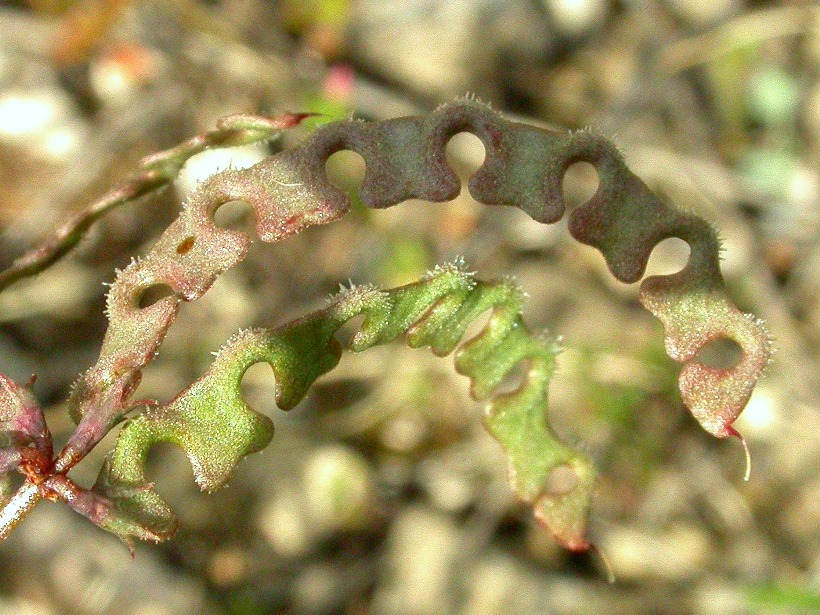 Fruits of Hippocrepis ciliata, Mattinata, Monte Gargano